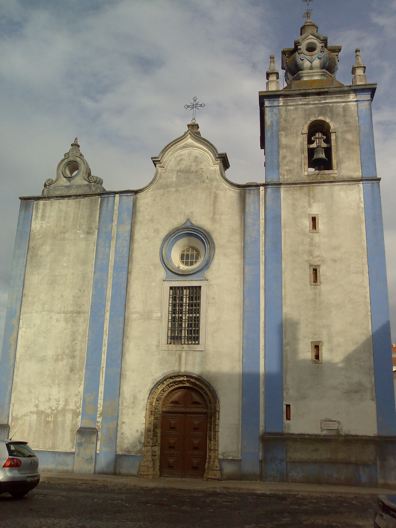 Igreja de Santiago - Torres Vedras